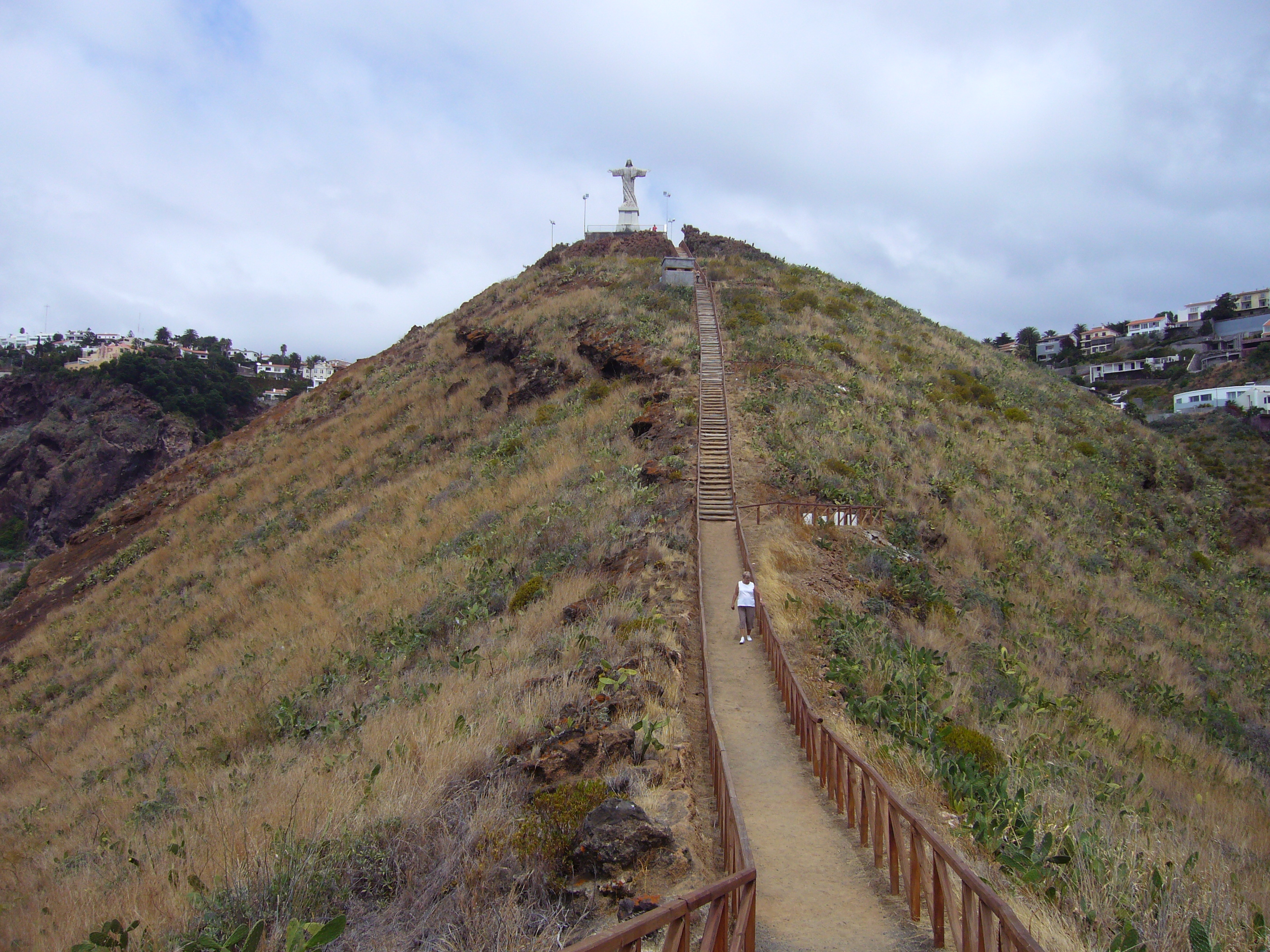 The statue "Cristo Rei" at Cape Garajau (Madeira)- view from the cape